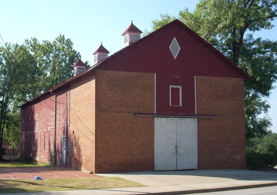 Clemson College Sheep Barn, S. Palmetto Blvd., Clemson (Pickens County, South Carolina)